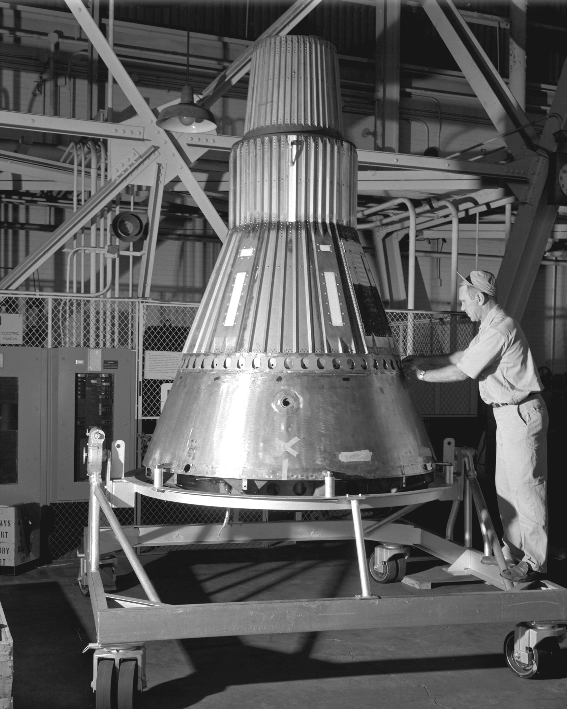 Project Mercury - Capsule #2. Capsule complete in Lewis Hangar near Cleveland, Ohio. Lewis is now known as the Glenn Research Center. Capsule #2 was the Mercury spacecraft used in the failed Mercury-Redstone 1 mission and the Mercury-Redstone 1A mission, both of which were unmanned. In this photo, the capsule's structural skin is visible, because the protective covering of corrugated "shingles" hasn't yet been applied. The capsule's control jets have also not yet been installed.